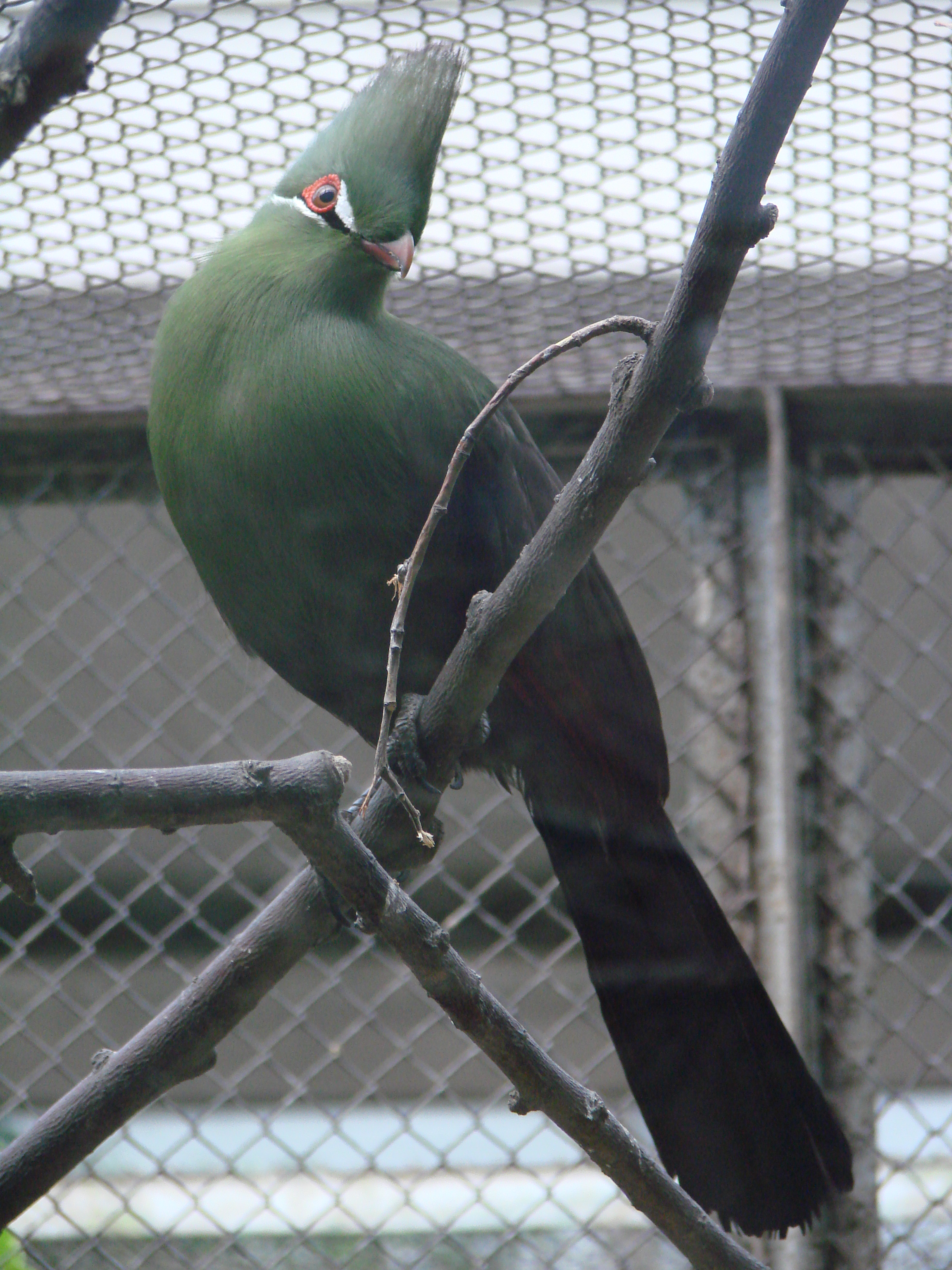 Picture taken in the zoo of Wrocław (Poland): Tauraco persa (Linnaeus, 1758)